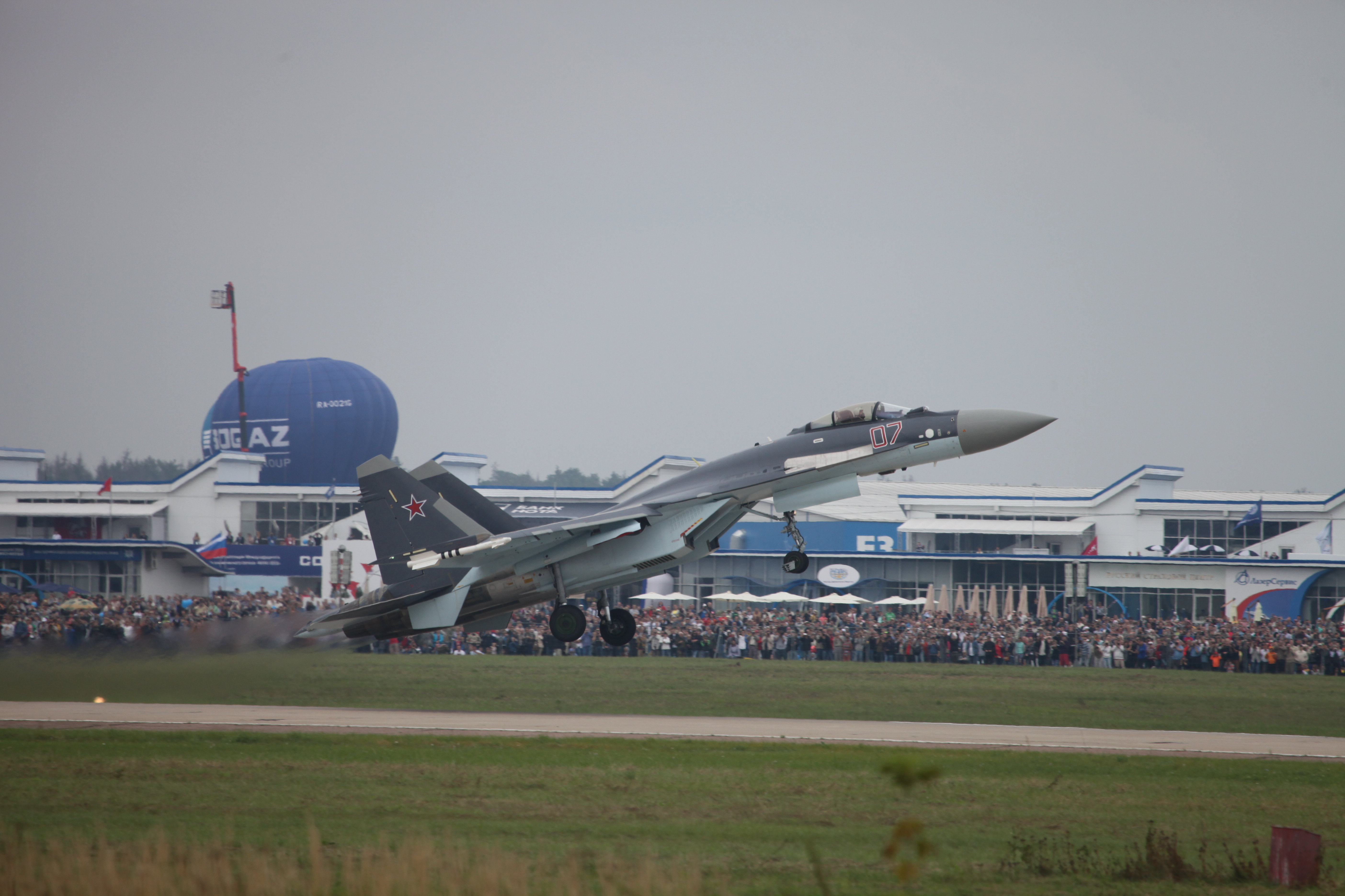 Su-35S at the MAKS-2013